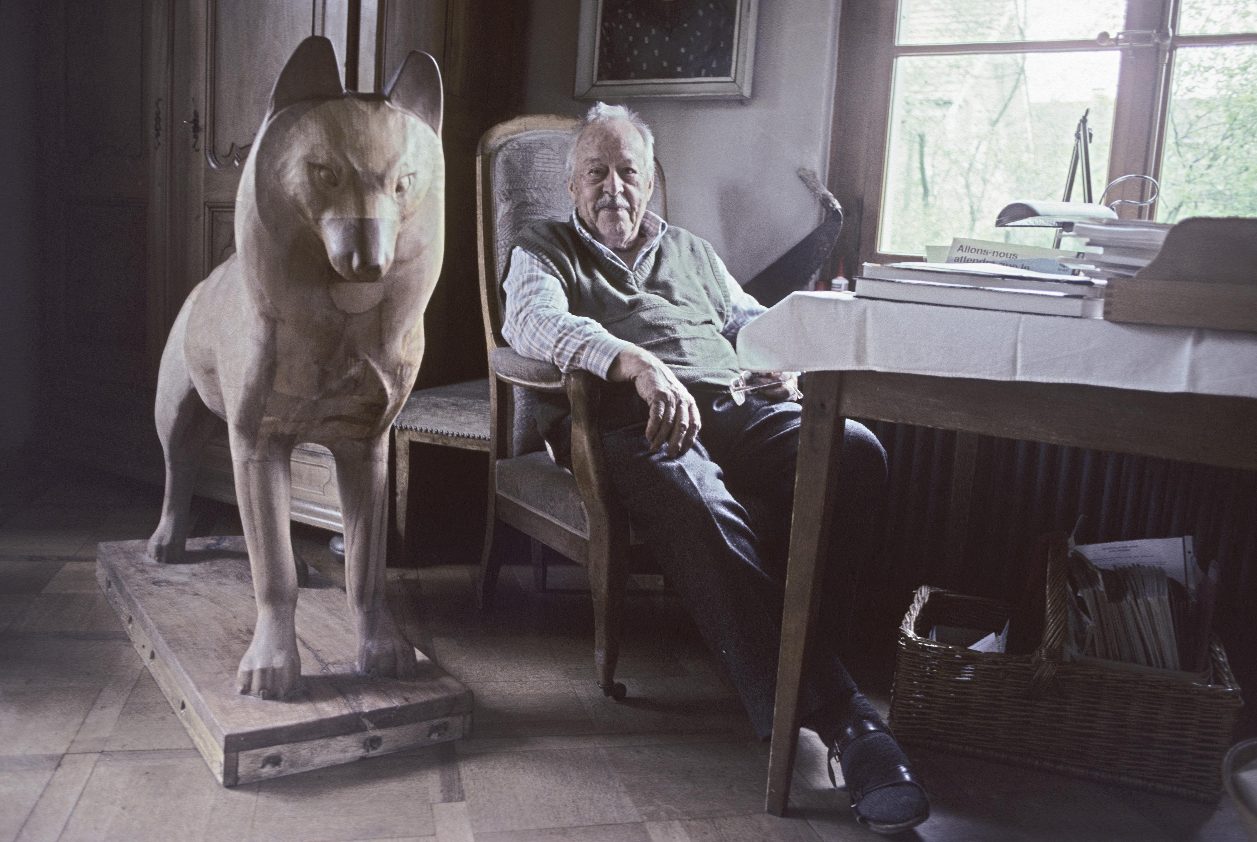 Robert Hainard at his home in Bernex, Switzerland, with a sculpture of a wolf.